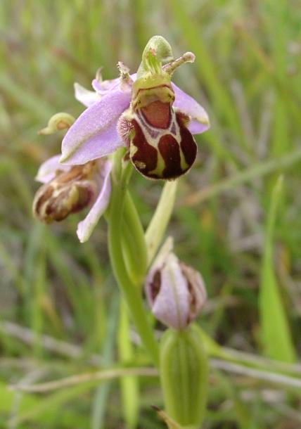 Photo by Ramin Nakisa. See Talk page of User:Ramin Nakisa